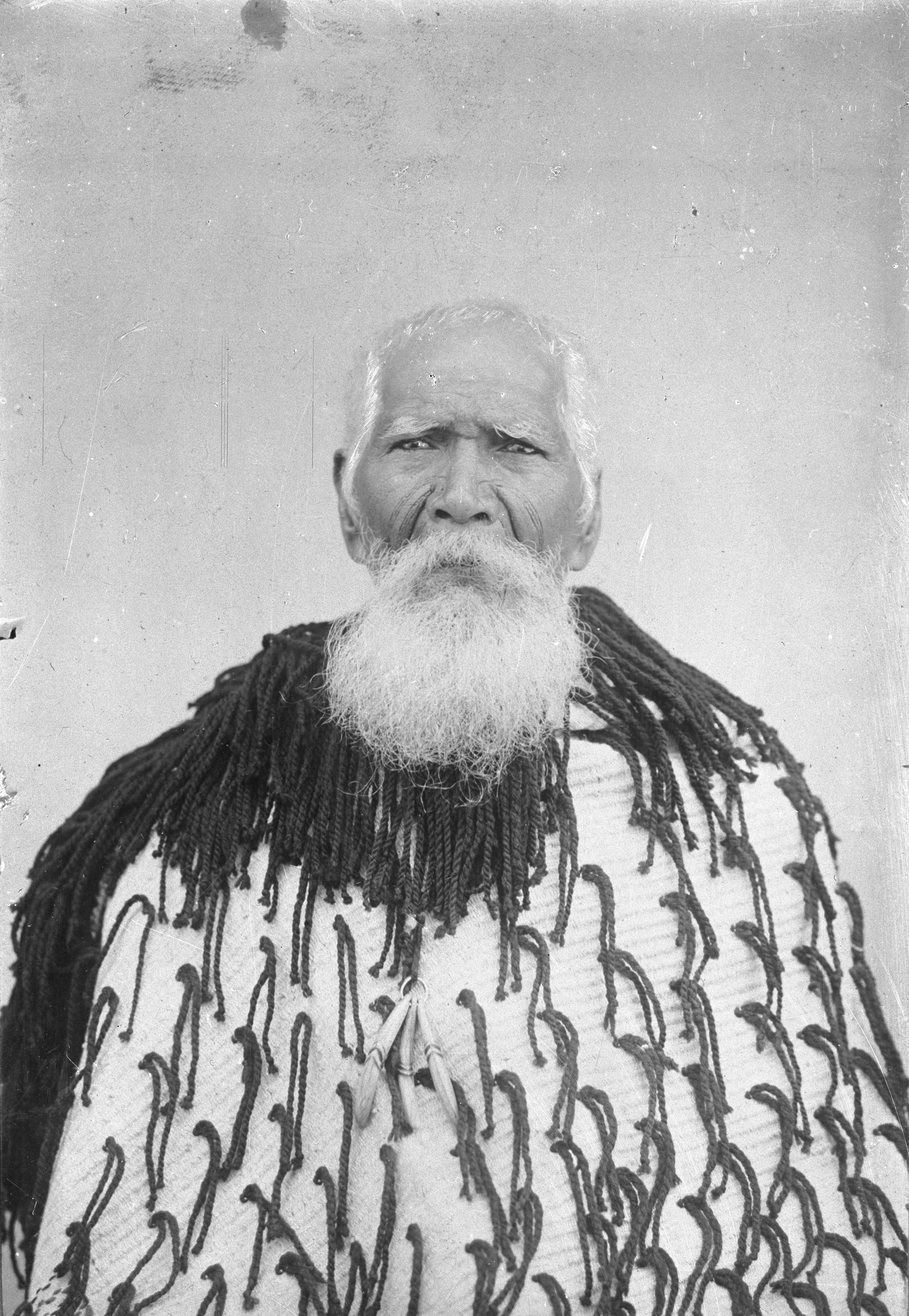 Copy negative made by Albert Percy Godber from an original print by photographer who signed his images "St Clair. Photo", showing a portrait of a bearded man, possibly Maori, wearing a kakahu (Maori cloak).